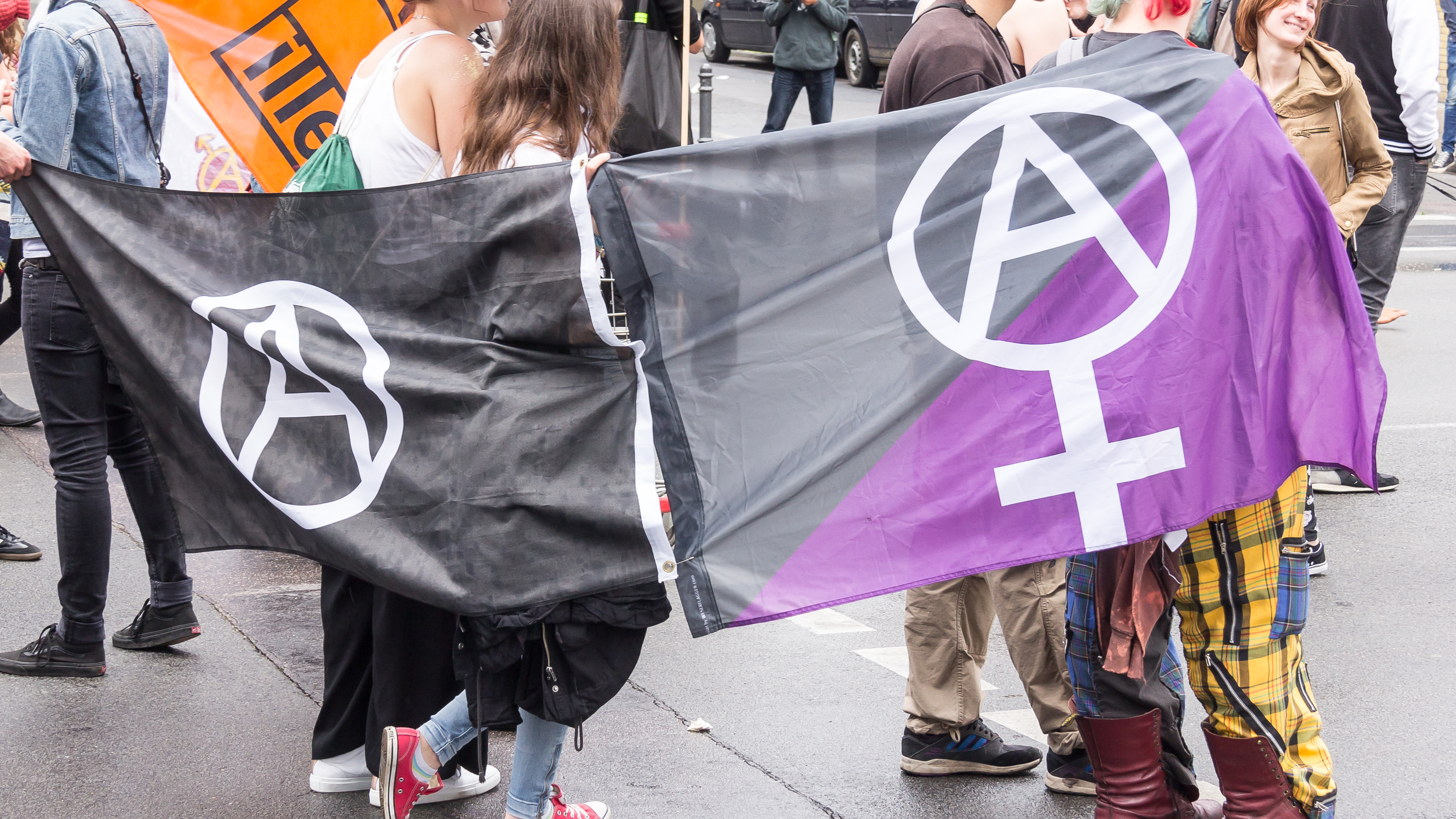 Participants on the political demonstration ColognePride/CSD